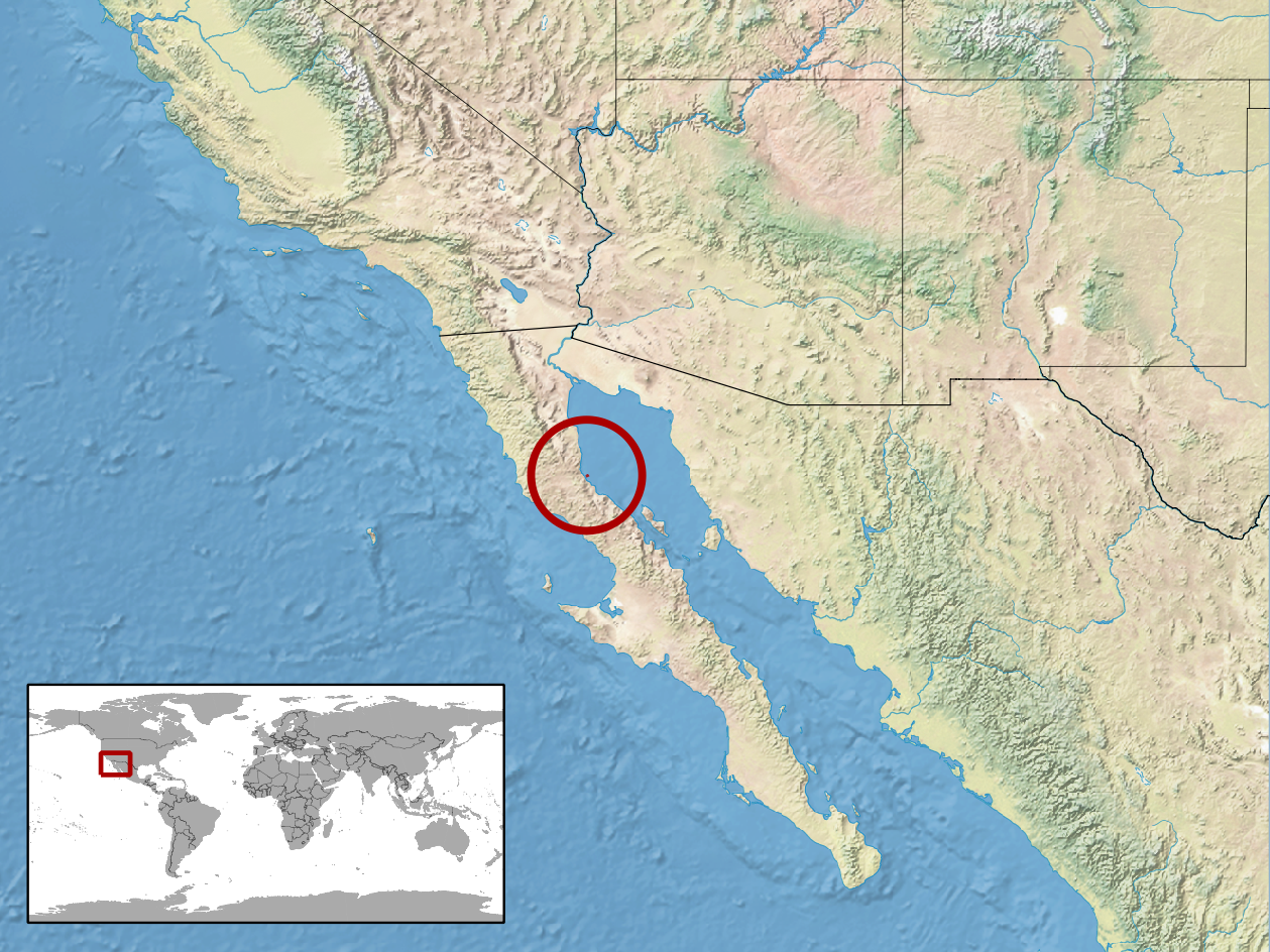 geographic distribution of Crotalus angelensis syn Crotalus mitchellii angelensis (Native: Mexico)